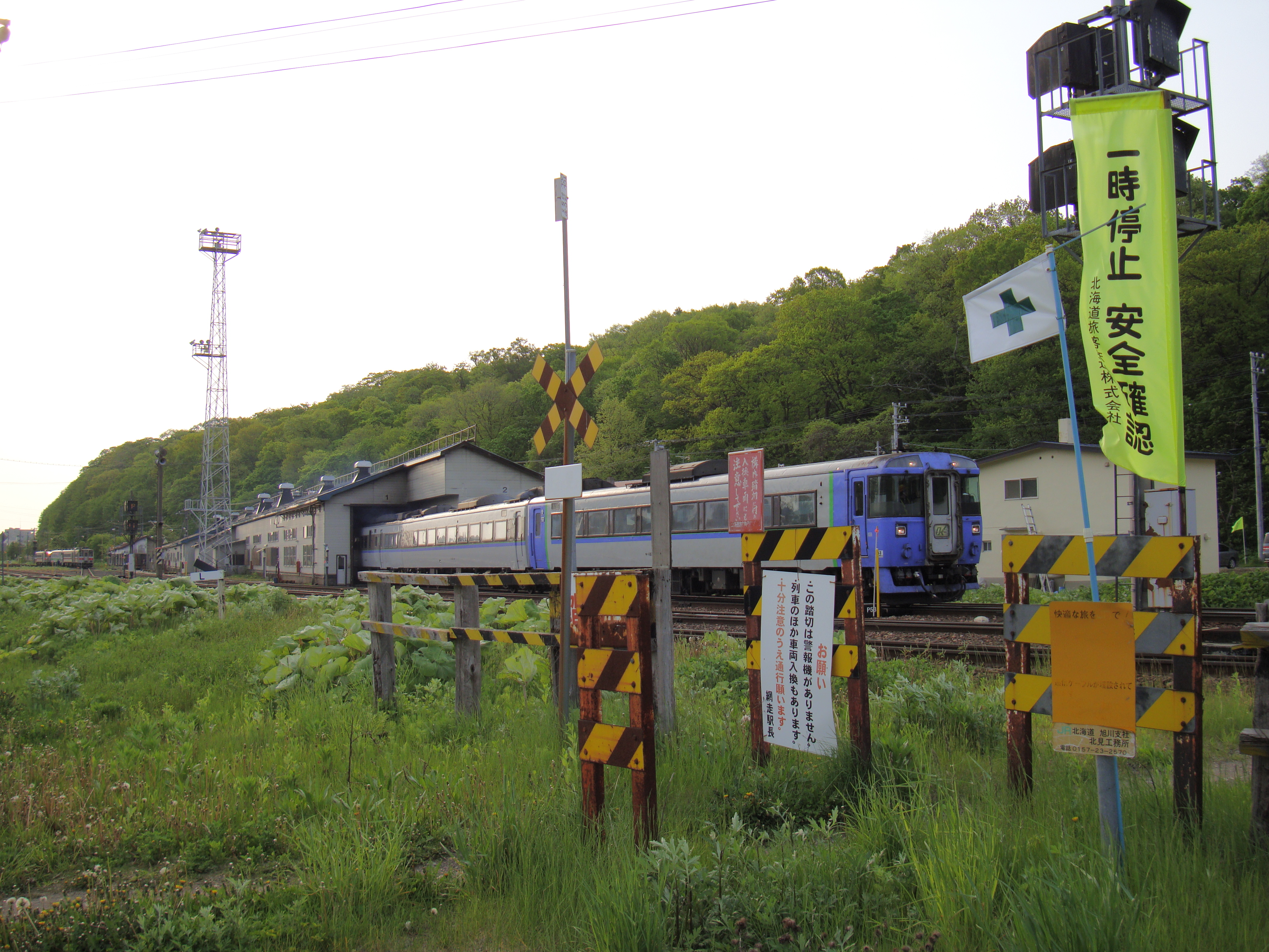 Abashiri Station Level crossing